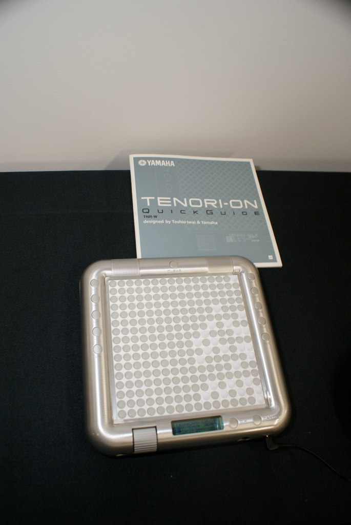 Google Chrome Party - 22